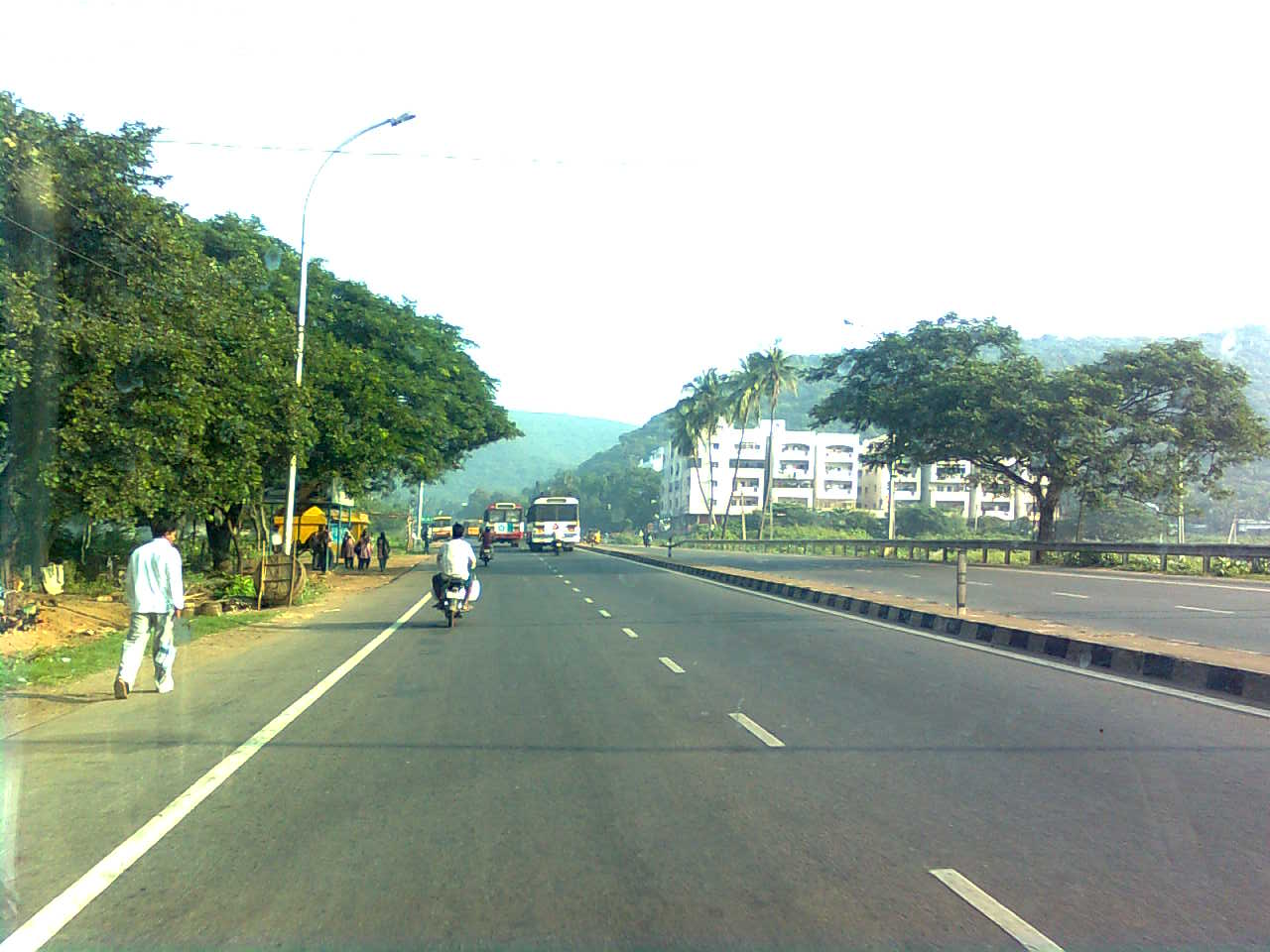 National Highway 5 (NH5 - new NH16) at Hanumanthawaka,Visakhapatnam